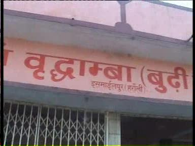 Budhi Mai, a famous temple in the Valishi District